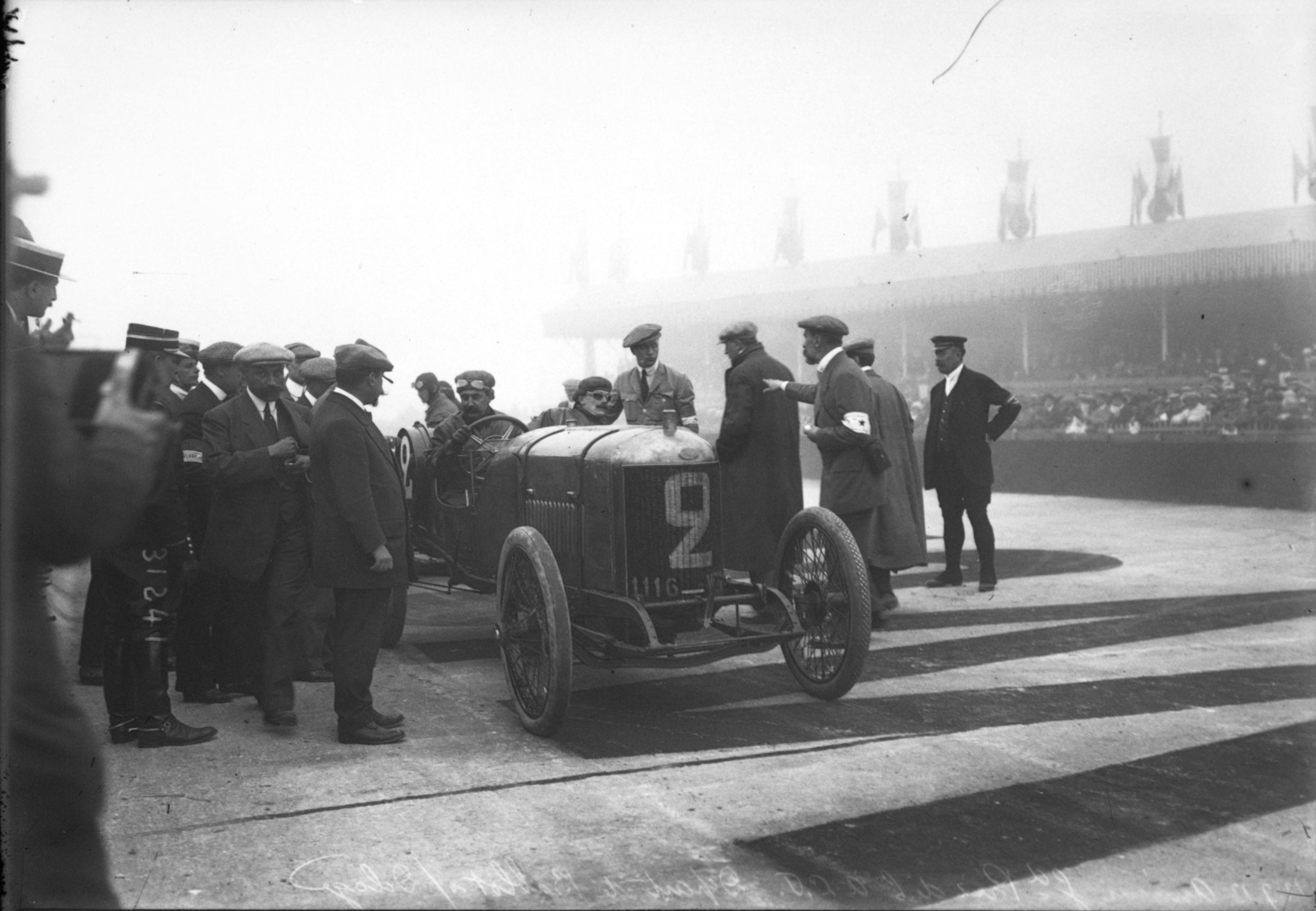 Paul Bablot at the 1913 French Grand Prix